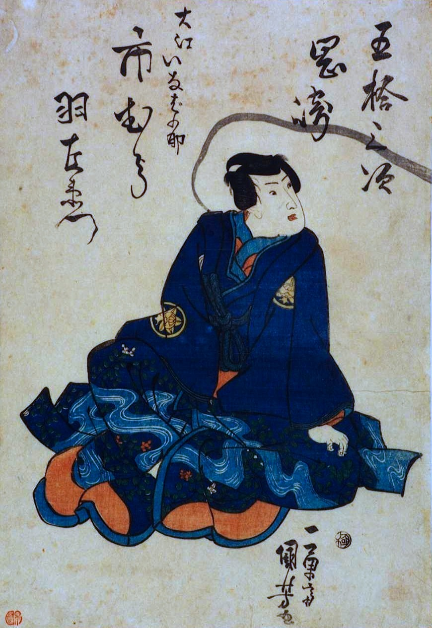 Uzaemon Ichimura XI as Ōe Inaba-no-suke Hirotsugu, in the February 1835 Edo Ichimura-za production of Ume-no Haru Gojyū-san-tsugi, painted by Ichiyūsai Kuniyoshi. A collection of Waseda Theatre Museum.